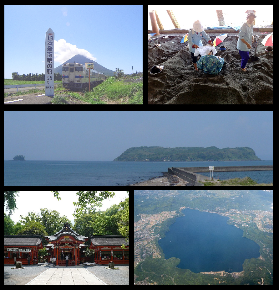 From top:Nishioyama Station(The station of JR extreme southern tip of Japan ),Sand steam bath of Ibusuki,Chiringashima,Hirakiki-jinja,Lake Ikeda